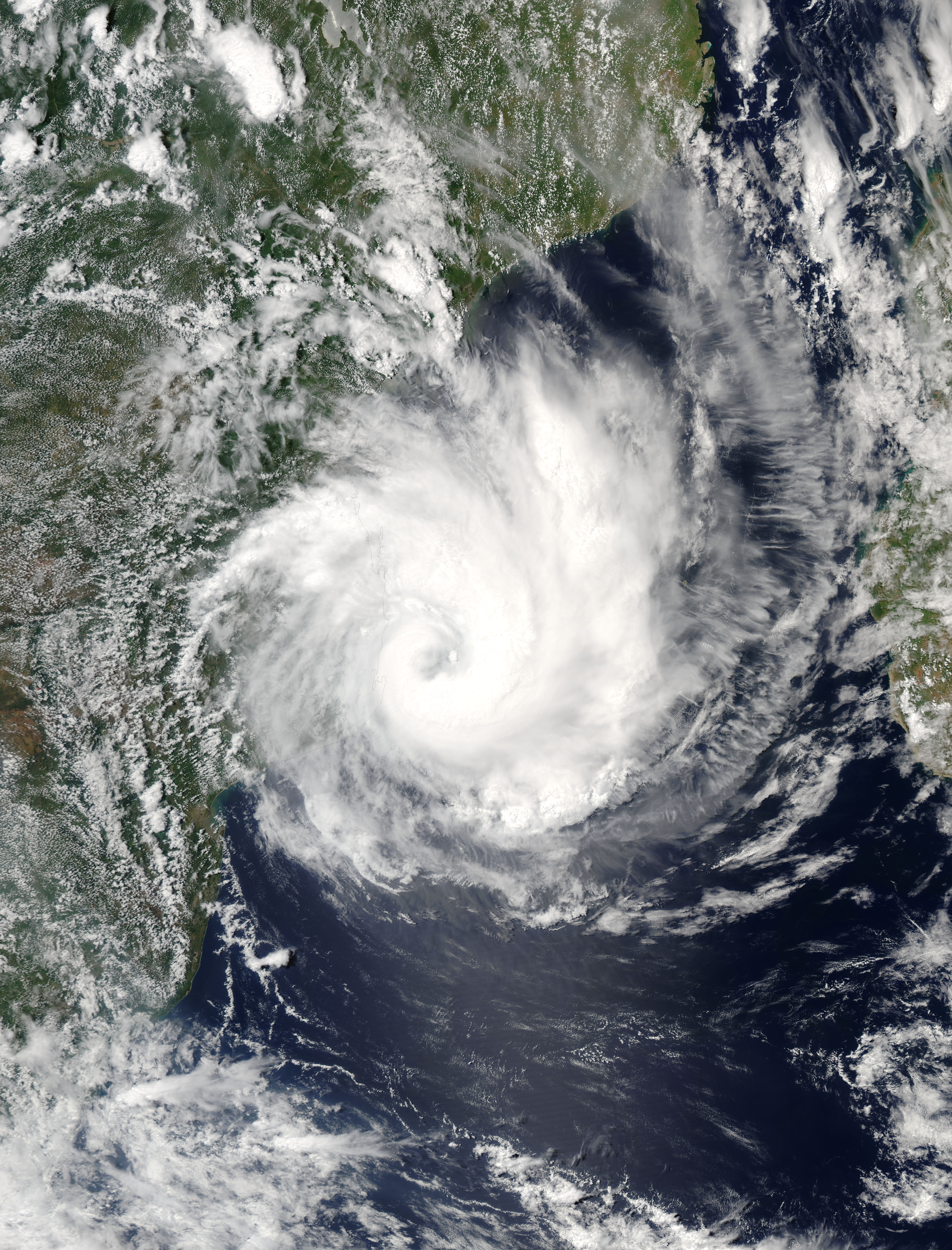 Tropical Cyclone Dineo nearing landfall over Inhambane Province, Mozambiqu shortly before peak intensity on 15 February 2017.